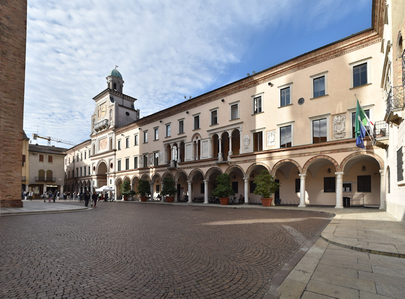 City ​​Hall of Crema (Italy)